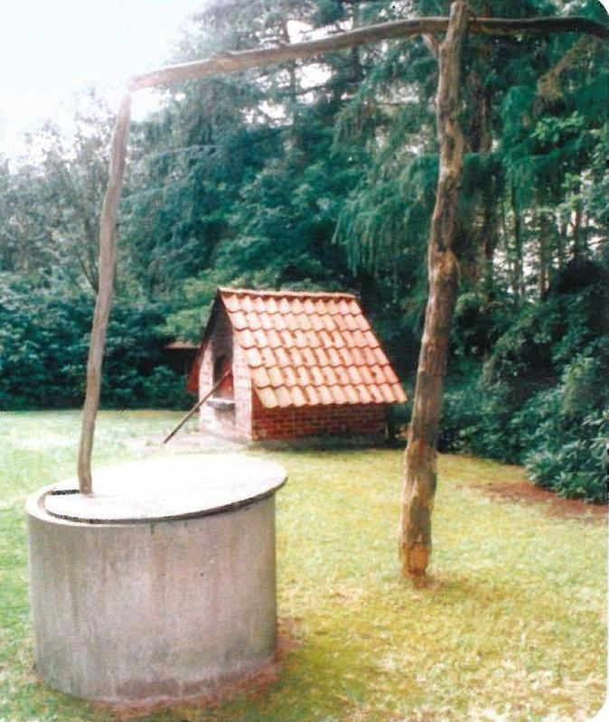 Torfschiffswerft Schlussdorf: Draw well and oven-house